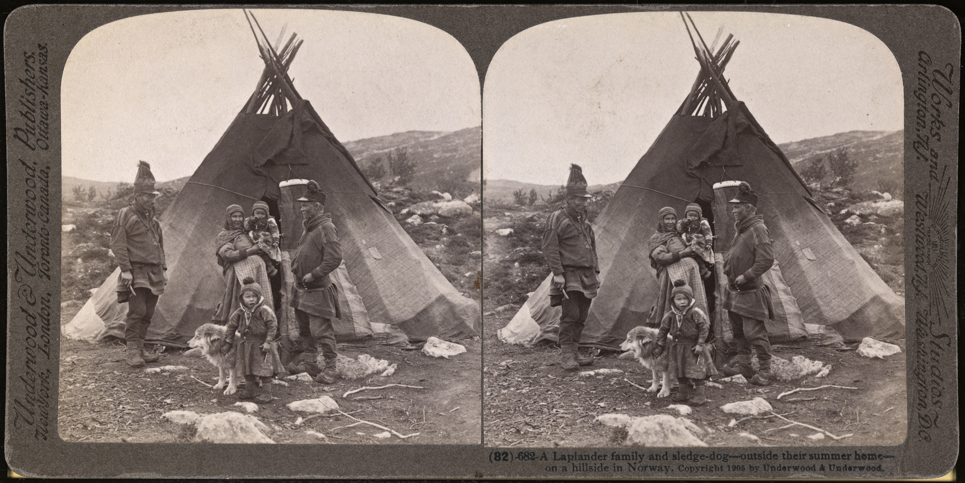 Tittel / Title: 682 (82). A Laplander family and sledge dog - outside their summer home - on a hillside in Norway Motiv / Motif: Stereoskopi. Dato / Date: ca 1905 Fotograf / Photographer: Elmer Underwood (1859-1947) Utgiver / Publisher: Underwood & Underwood Eier / Owner Institution: Nasjonalbiblioteket / National Library of Norway Lenke / Link: Bildesignatur / Image Number: bldsa_stereo_0162